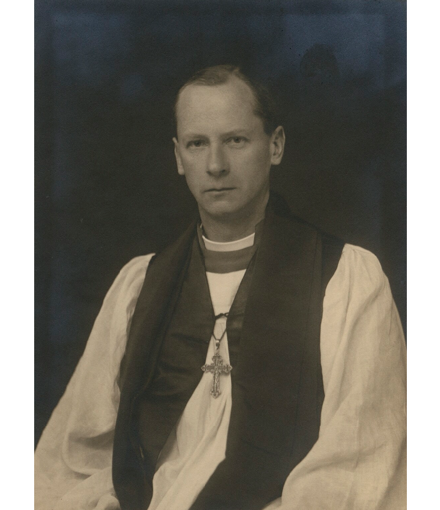 Theodore Sumner Gibson (1885-1953). Thorough attempts to trace author, in libraries and online, have been made, to no avail.